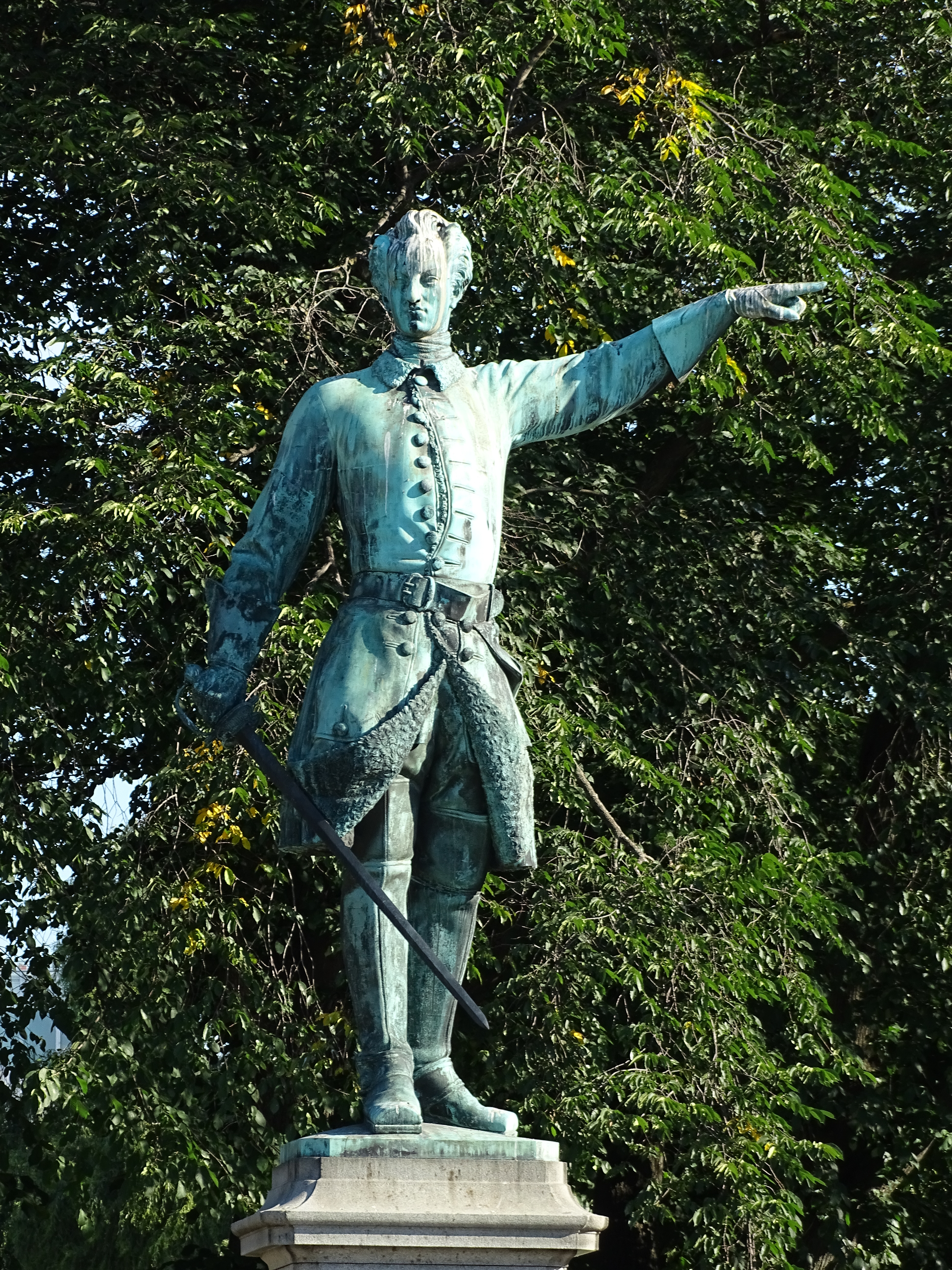 Statue of Charles XII of Sweden in Kungsträdgården, Stockholm, Zweden.